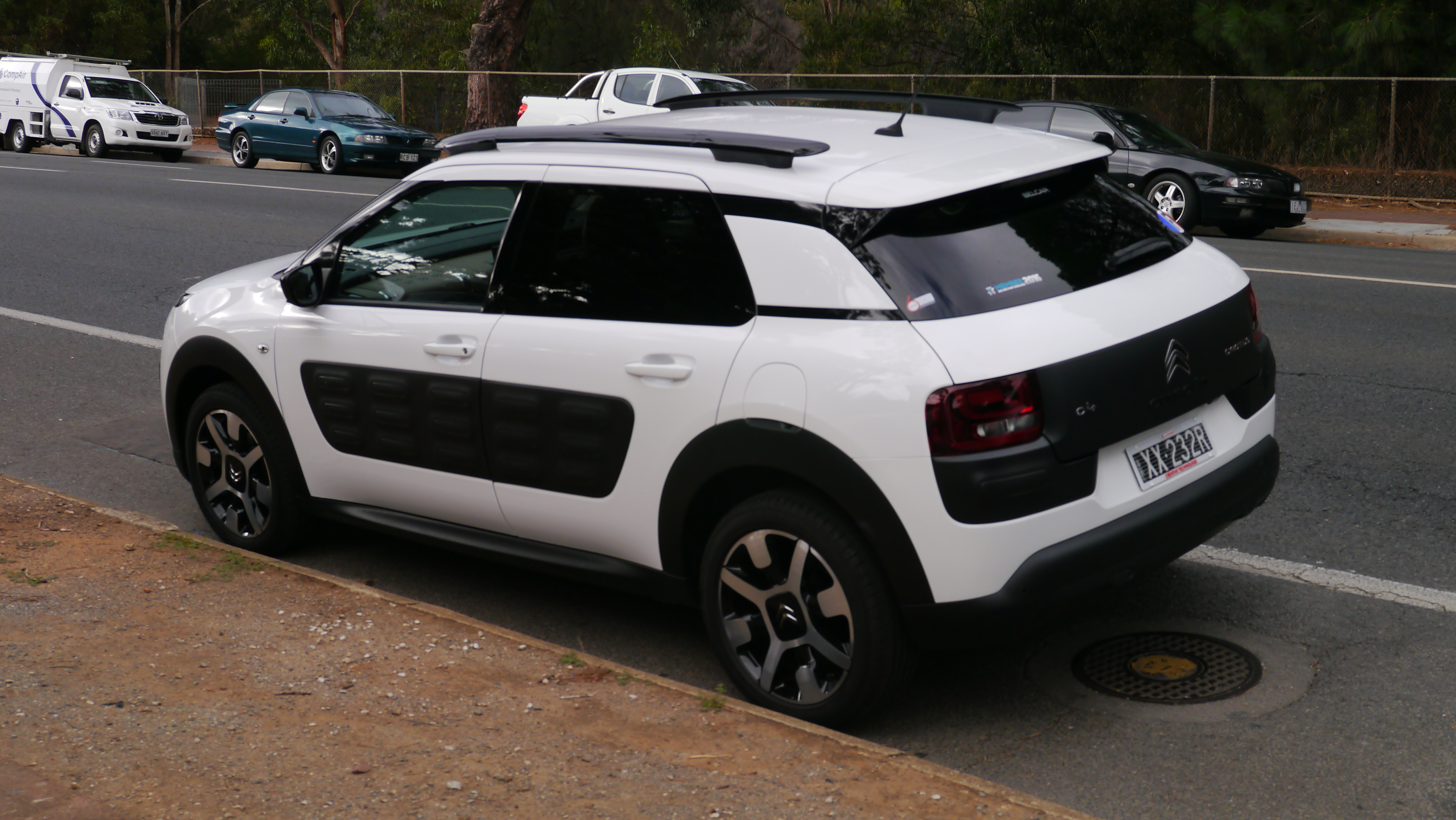 My first Australian spec Citroen C4 Cactus, that I've seen in the wild! Such a cool looking car!